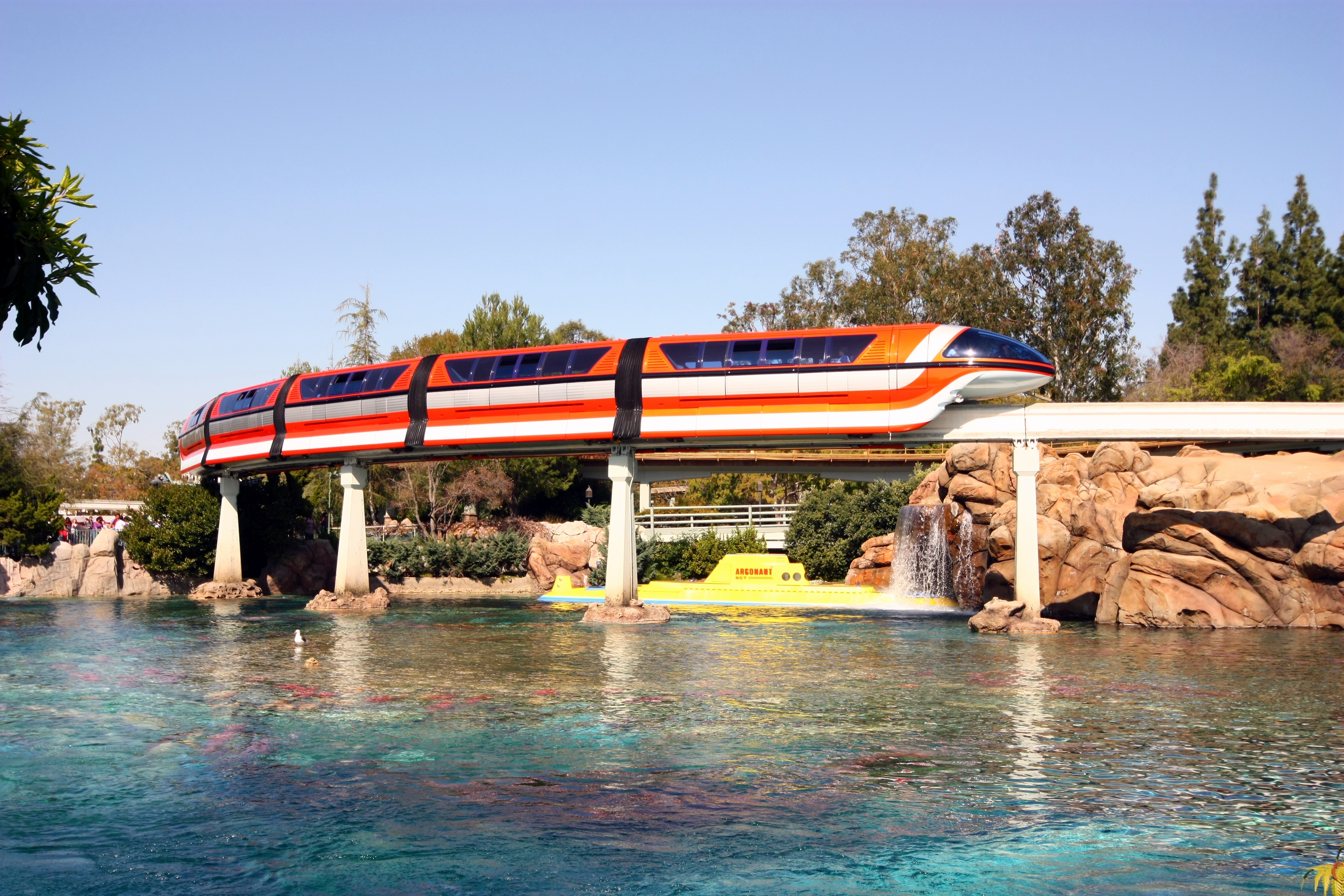 Monorail Orange passing over the submarine Argonaut at Disneyland Park.